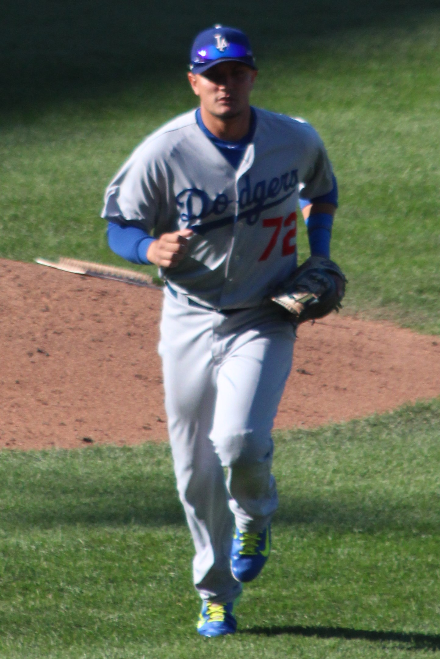 Miguel Rojas for the 2014 Los Angeles Dodgers against the 2014 Chicago Cubs at Wrigley Field.